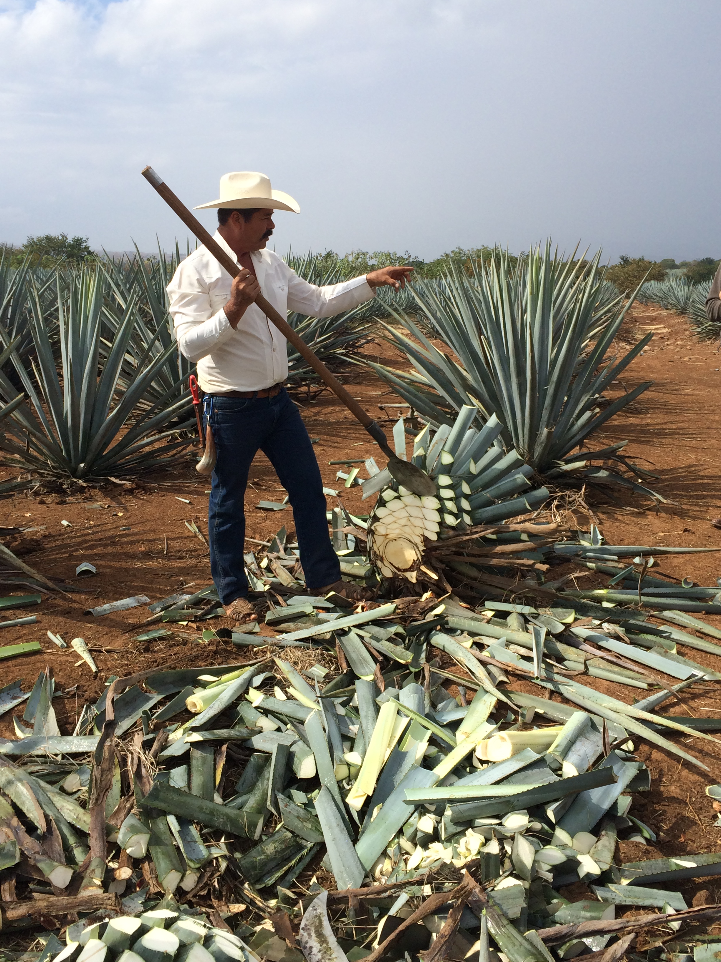 In the Tequila fields, Jalisco we can see the hard work of the Jimador, which represents the art of the typical drink from our country (Mexico).